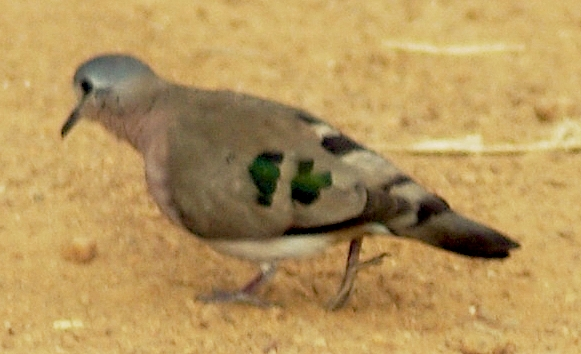 Adult Emerald-spotted Wood Dove, Turtur chalcospilos, Maasai Mara National Reserve, Kenya. The time stamp is 10 hours too early.